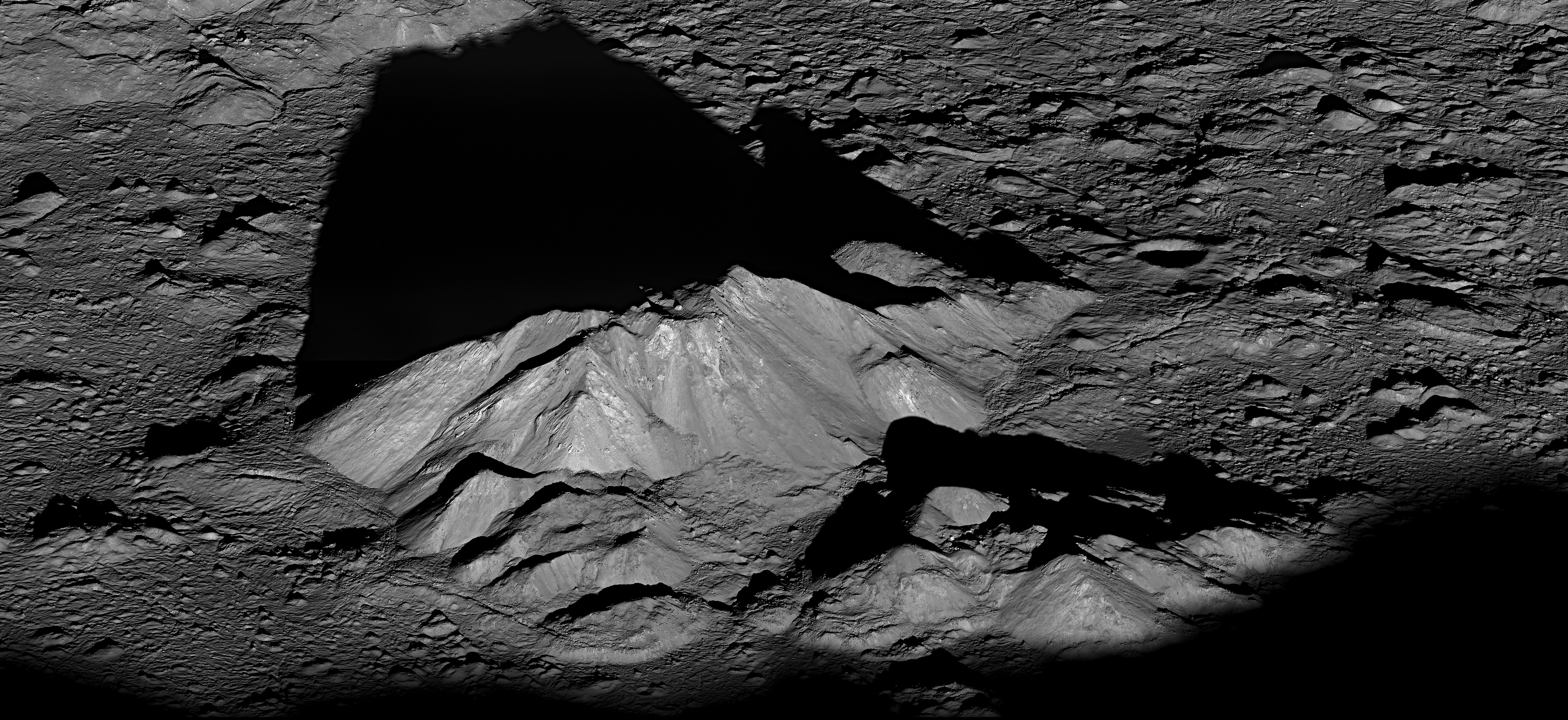 On 10 June 2011 the LRO spacecraft slewed 65° to the west, allowing the LROC NACs to capture this dramatic sunrise view of Tycho crater. A very popular target with amateur astronomers, Tycho is located at 43.37°S, 348.68°E, and is ~82 km (51 miles) in diameter. The summit of the central peak is 2 km (6562 ft) above the crater floor, and the crater floor is about 4700 m (15,420 ft) below the rim. Many "clasts" ranging in size from 10 meters to 100s of meters are exposed in the central peak slopes. Were these distinctive outcrops formed as a result of crushing and deformation of the target rock as the peak grew? Or do they represent preexisting rock layers that were brought intact to the surface? Imagine future geologists carefully making their way across these steep slopes, sampling a diversity of rocks brought up from depth. Tycho's features are so steep and sharp because the crater is young by lunar standards, only about 110 million years old. Over time, micrometeorites, and not so micro meteorites, will grind and erode these steep slopes into smooth mountains. For a preview of what Tycho's central peak may look like in a few billion years, visit Bhabha crater. This is a version with about one fourth the linear pixel density of the original NASA full size image.